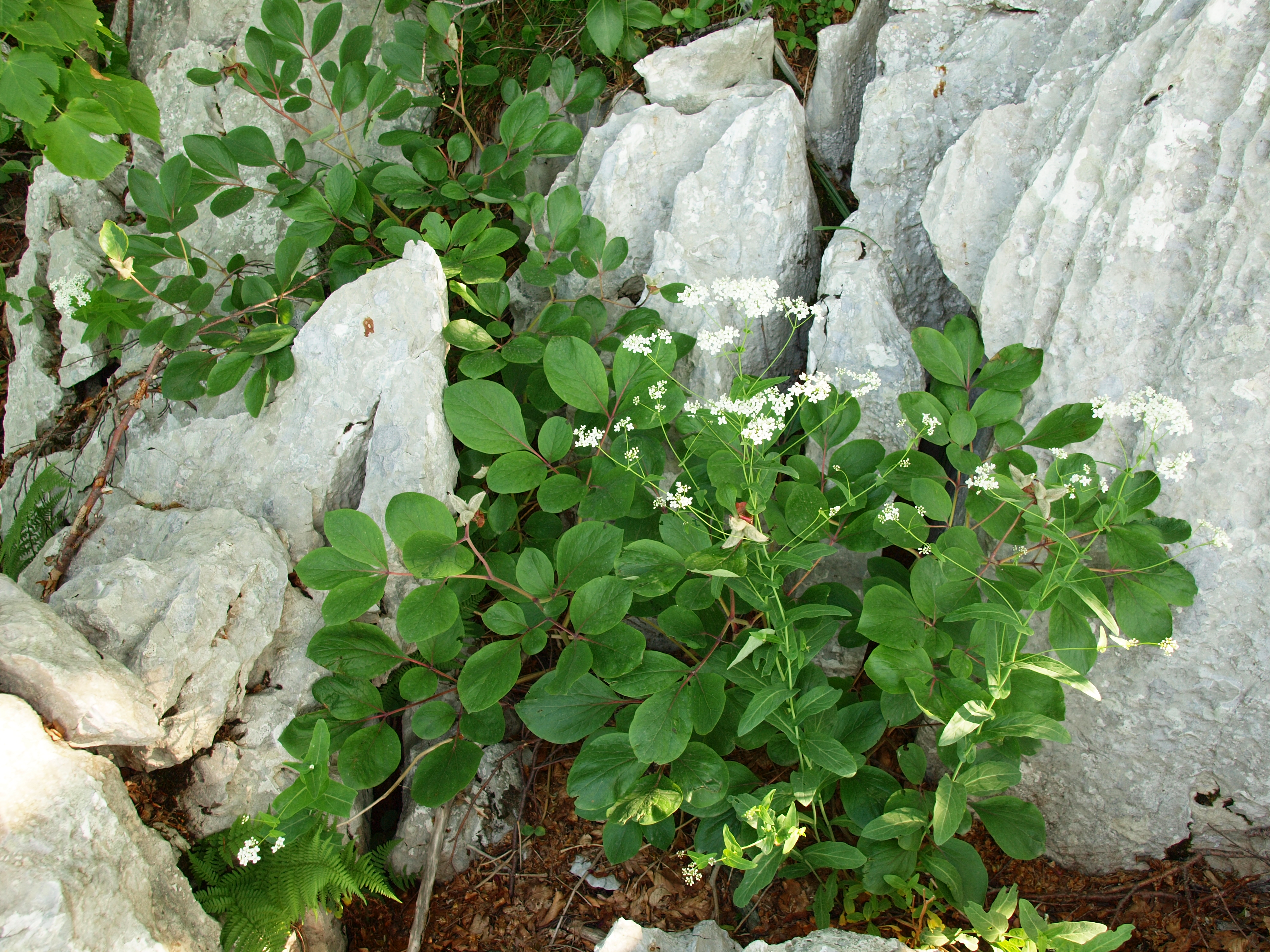 Paeonia daurica ssp. daurica from the wild, Mt Orjen Montenegro